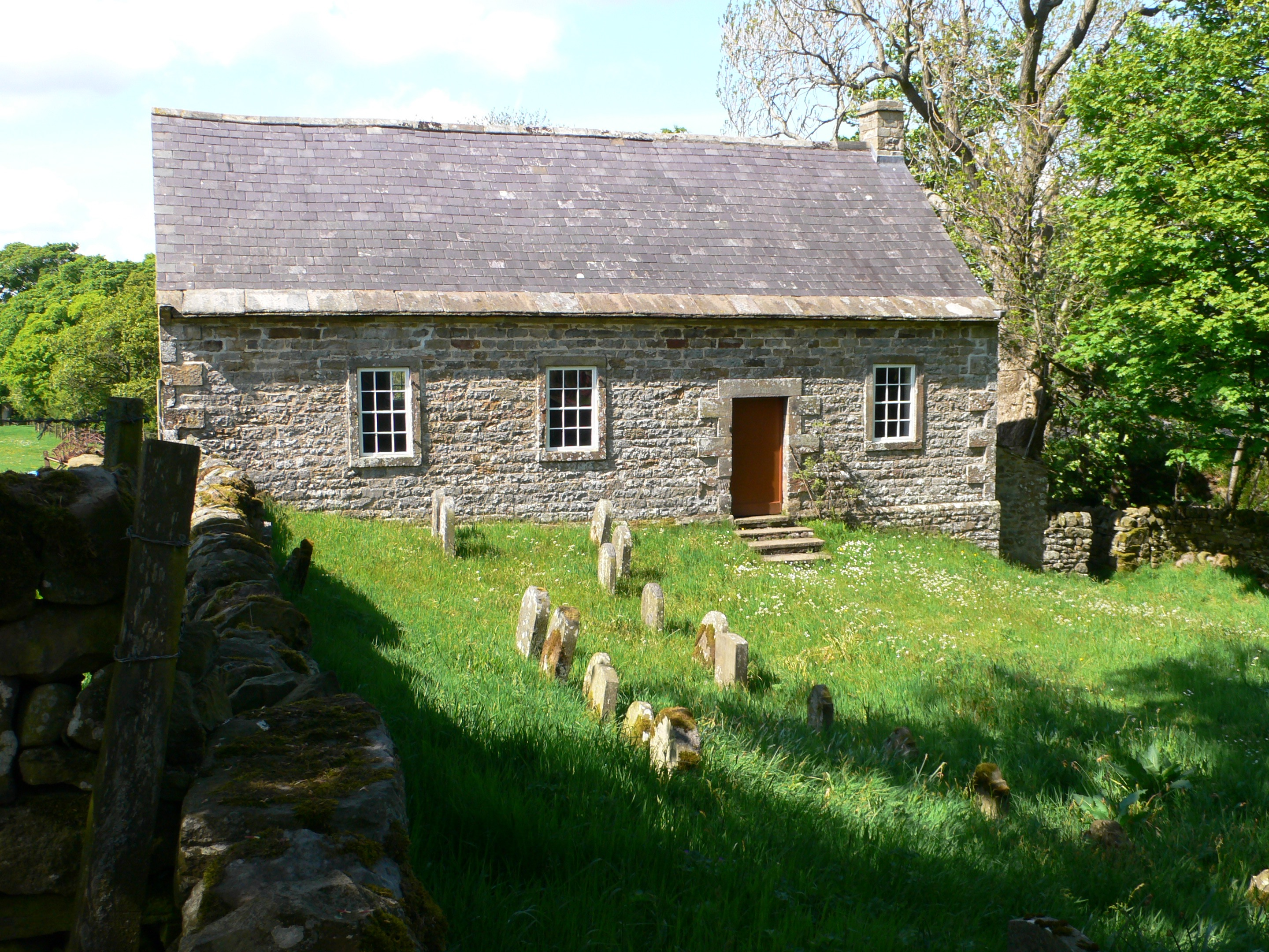 Friends Meeting House, Coanwood, Northumberland, England, built in 1750. The Quaker burial markers use the Julian calendar, not the Gregorian Calendar adopted in the UK in 1752, which Quakers and other resisted.